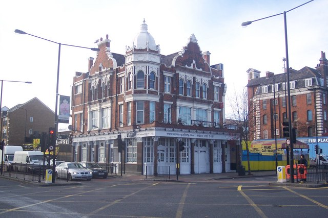 Formerly the Thomas A'Becket Public House On the busy junction of the a2 Old Kent Road (in front) and Albany Road (on the left). Pub is now a art gallery - The Nolias Gallery.